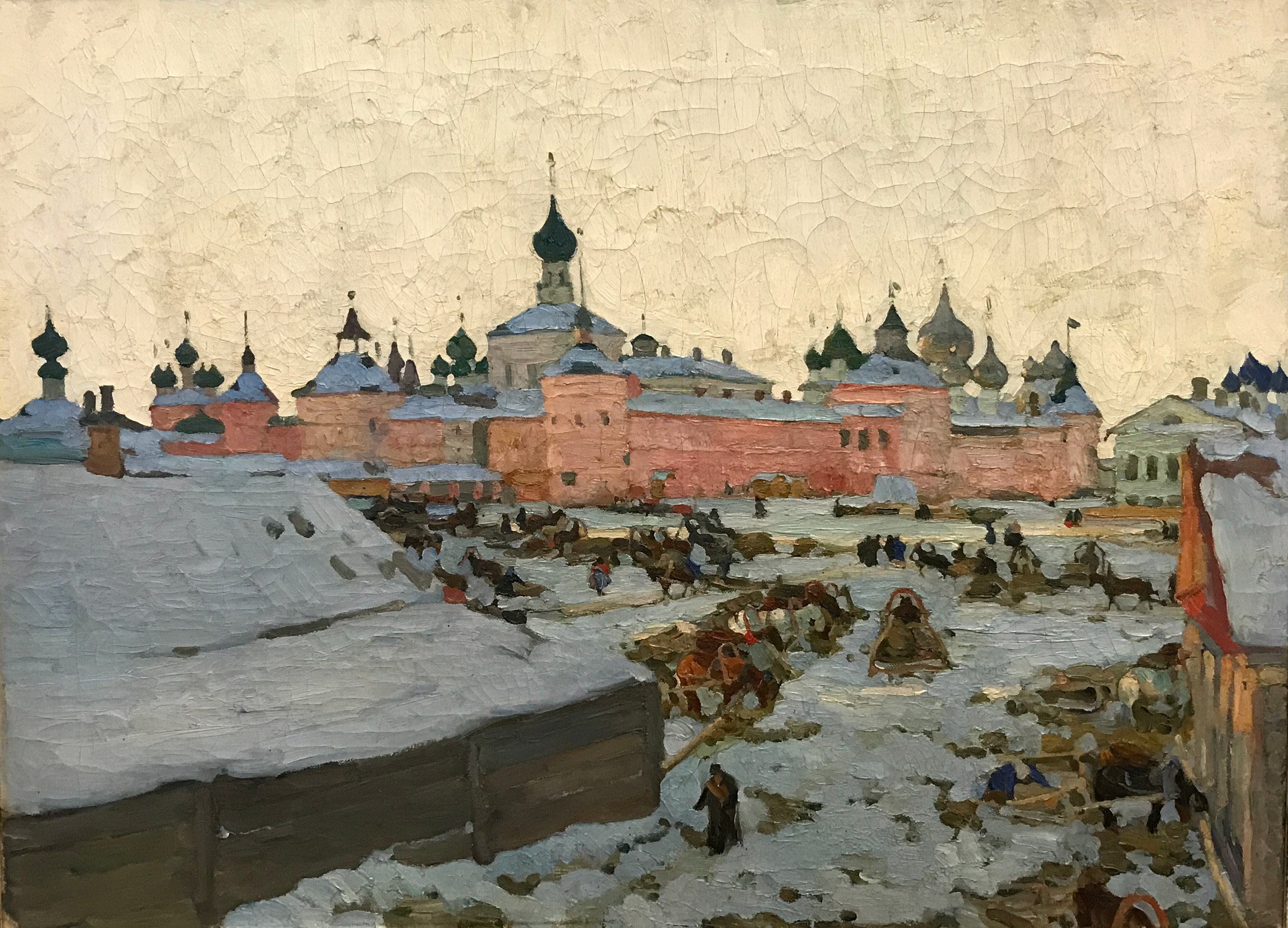 Spring evening. Rostov the Great